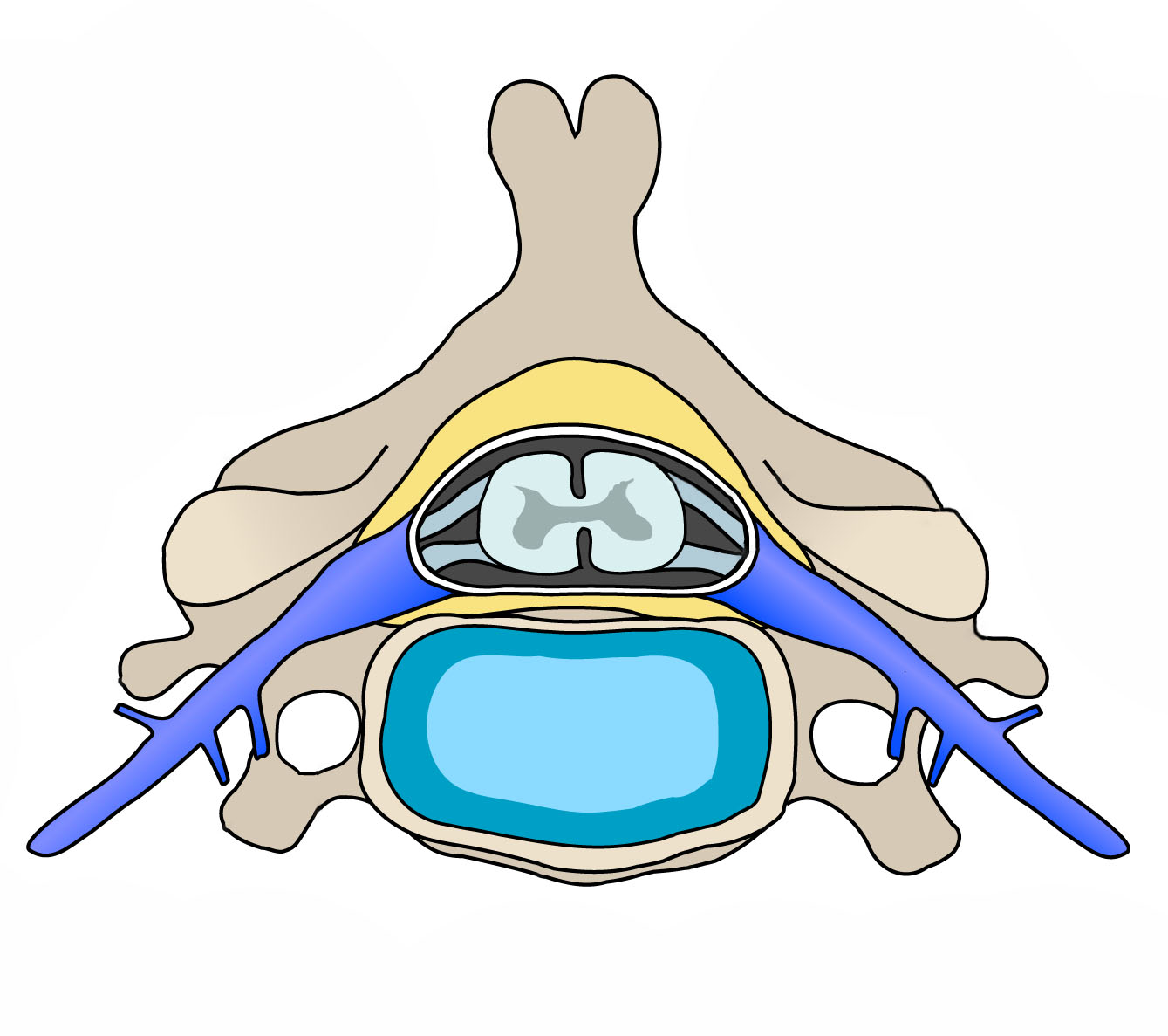 Superior view of cervical vertebra